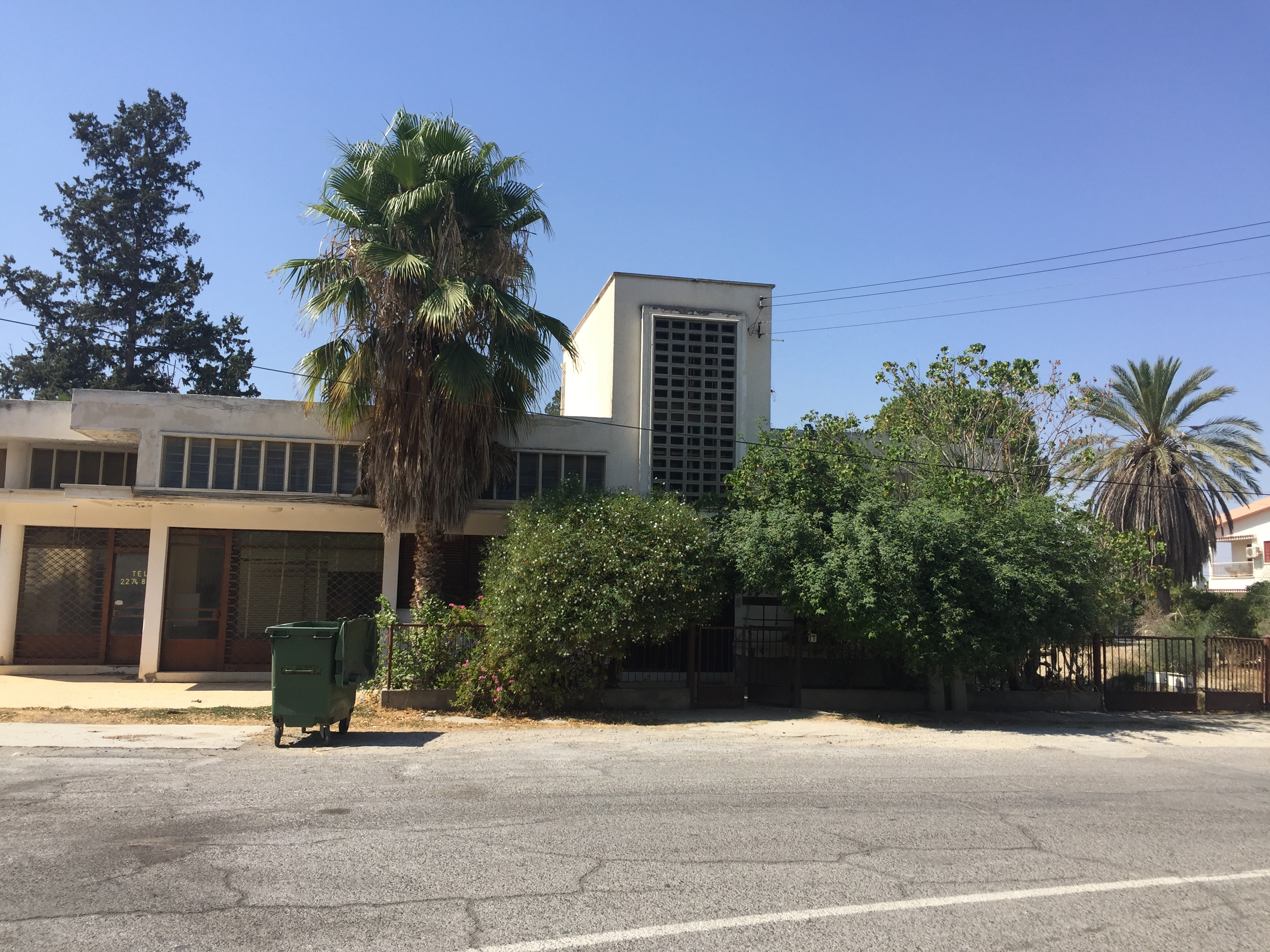 The house of the Aziz sisters, Türkan Aziz and Kamran Aziz, at 17 Mehmet Akif Avenue (Shakespeare Avenue), Köşklüçiftlik, Nicosia.